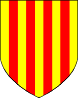 Arms of Roussillon (France)